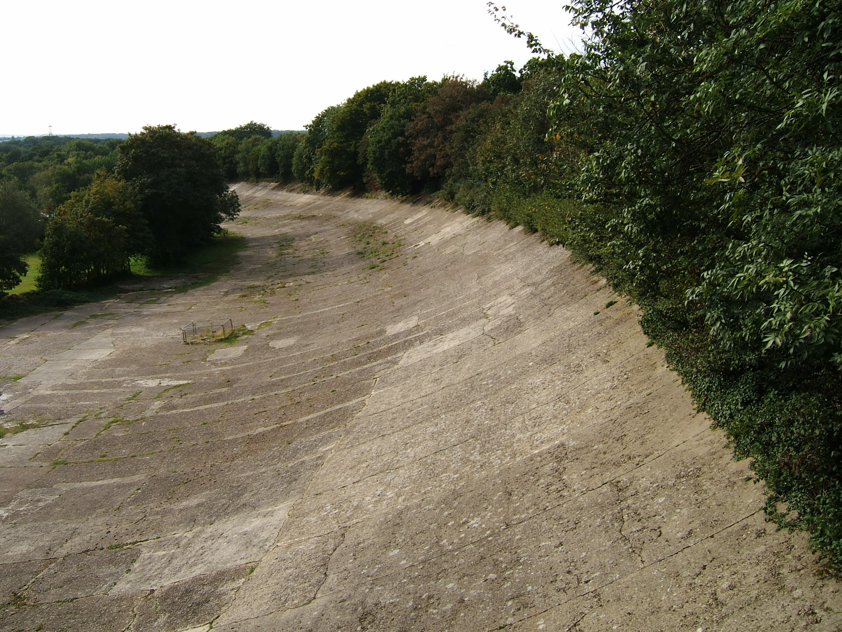 The Members' Banking at Brooklands motor racing circuit, Surrey, UK. The shot was taken from the Members' Bridge, approximately half way around the banking, looking anti-clockwise in the direction in which cars would have raced in period.